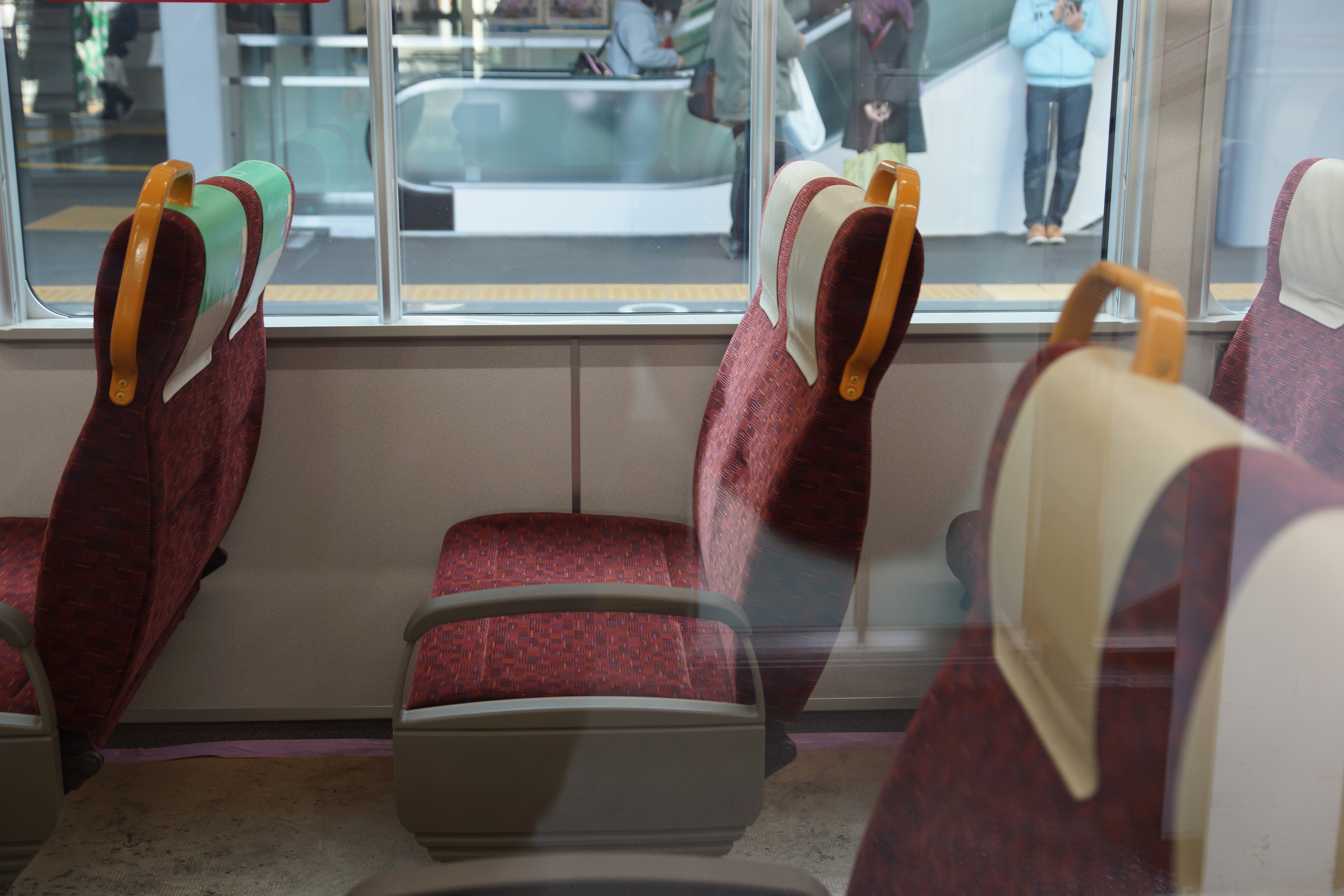 Interior of a JR West 227 series EMU at Hiroshima Station